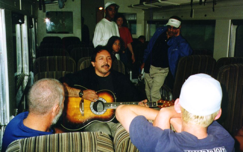 Wapistan (Lawrence Martin) playing on guitar and singing in Polar Bear Express on the way from Moosonee to Cochrane, Ontario, Canada.